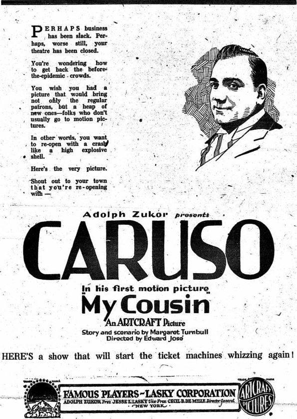 Advertisement for the American drama film My Cousin (1918) with Enrico Caruso, on page 46 of the November 15, 1918 Variety.